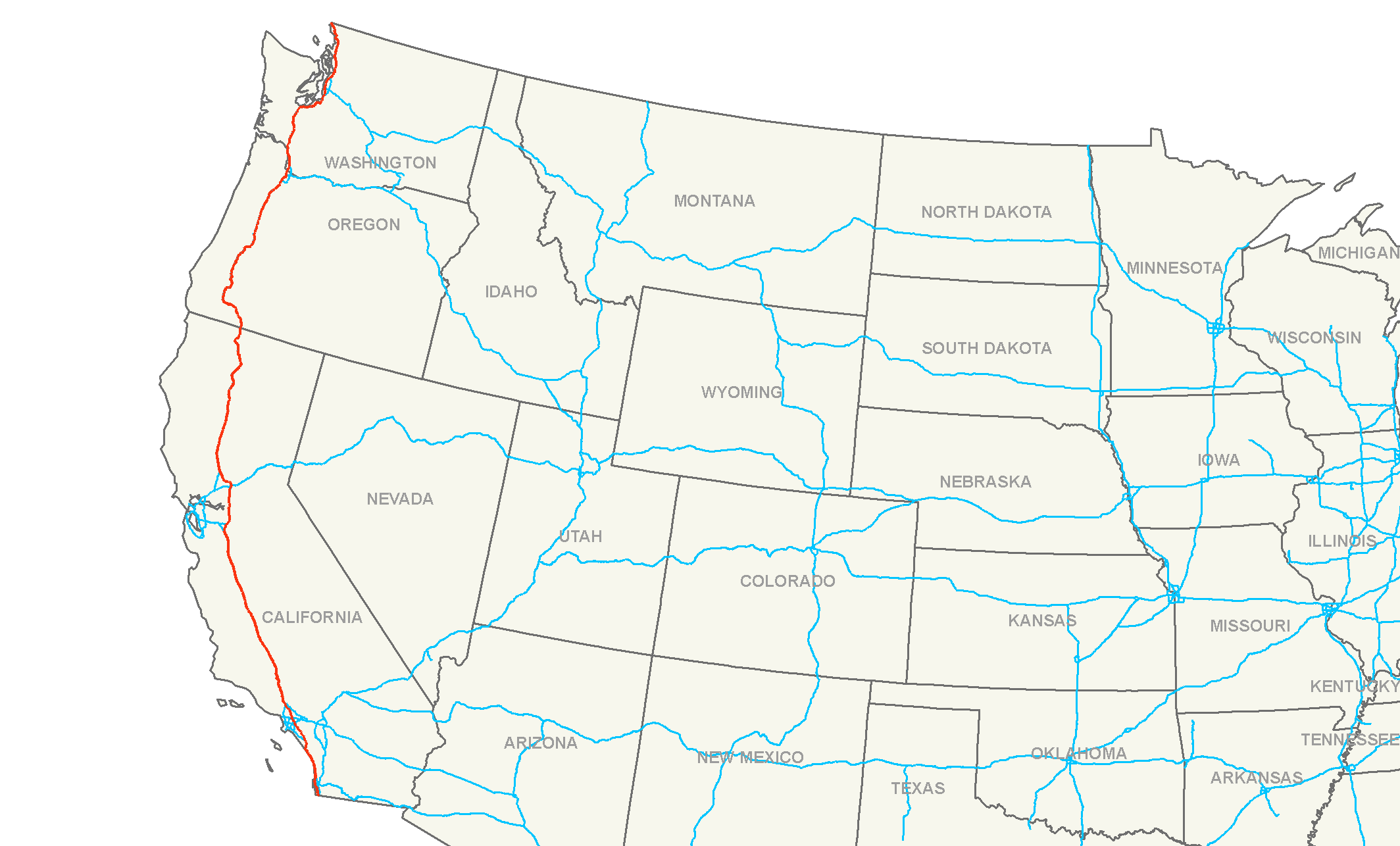 Map of Interstate 5